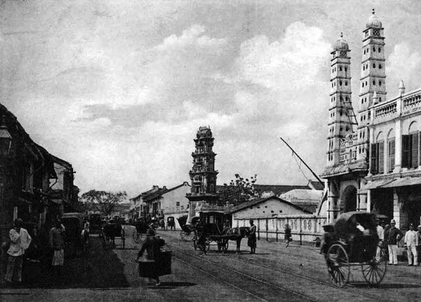 View of South Bridge Road before 1900: the Sri Mariamman Temple and Masjid Jamae can be seen.